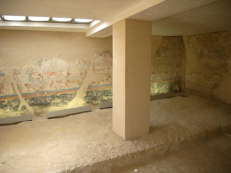 Meir, Tomb B1 of Senbi, South Wall, Egypt